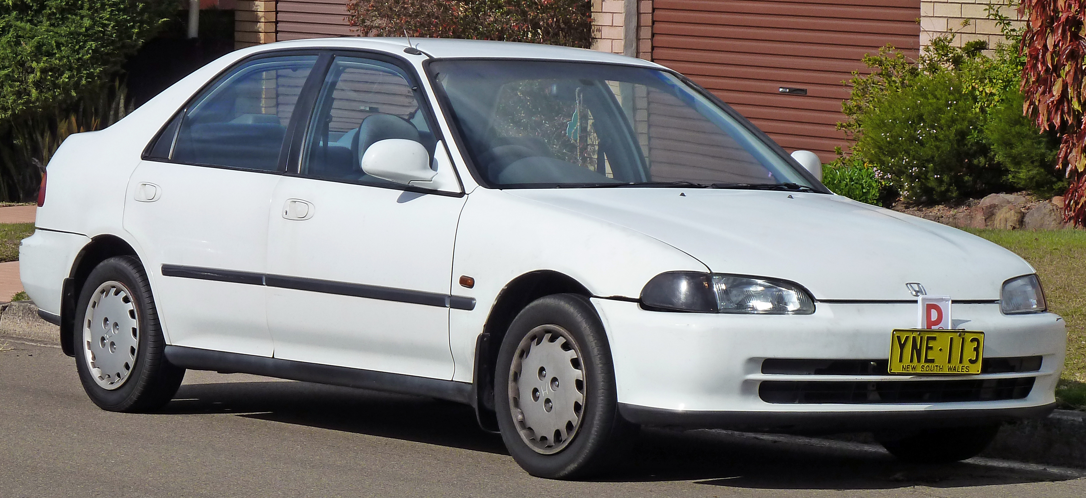 1993 Honda Civic (EG) GL sedan. Photographed in Sylvania, New South Wales, Australia.